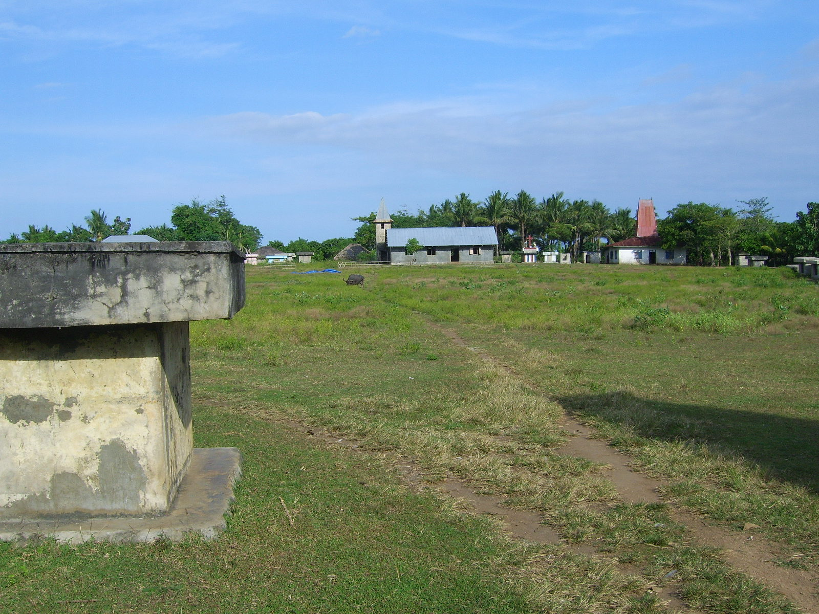 Field of the Pasola Festifal, Sumba